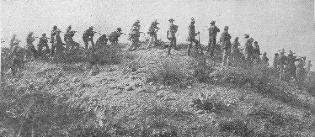 The New York Times (New York), January 18, 1914 : "General Ortega's men opening fire in the first assault on the federals in Ojinaga."